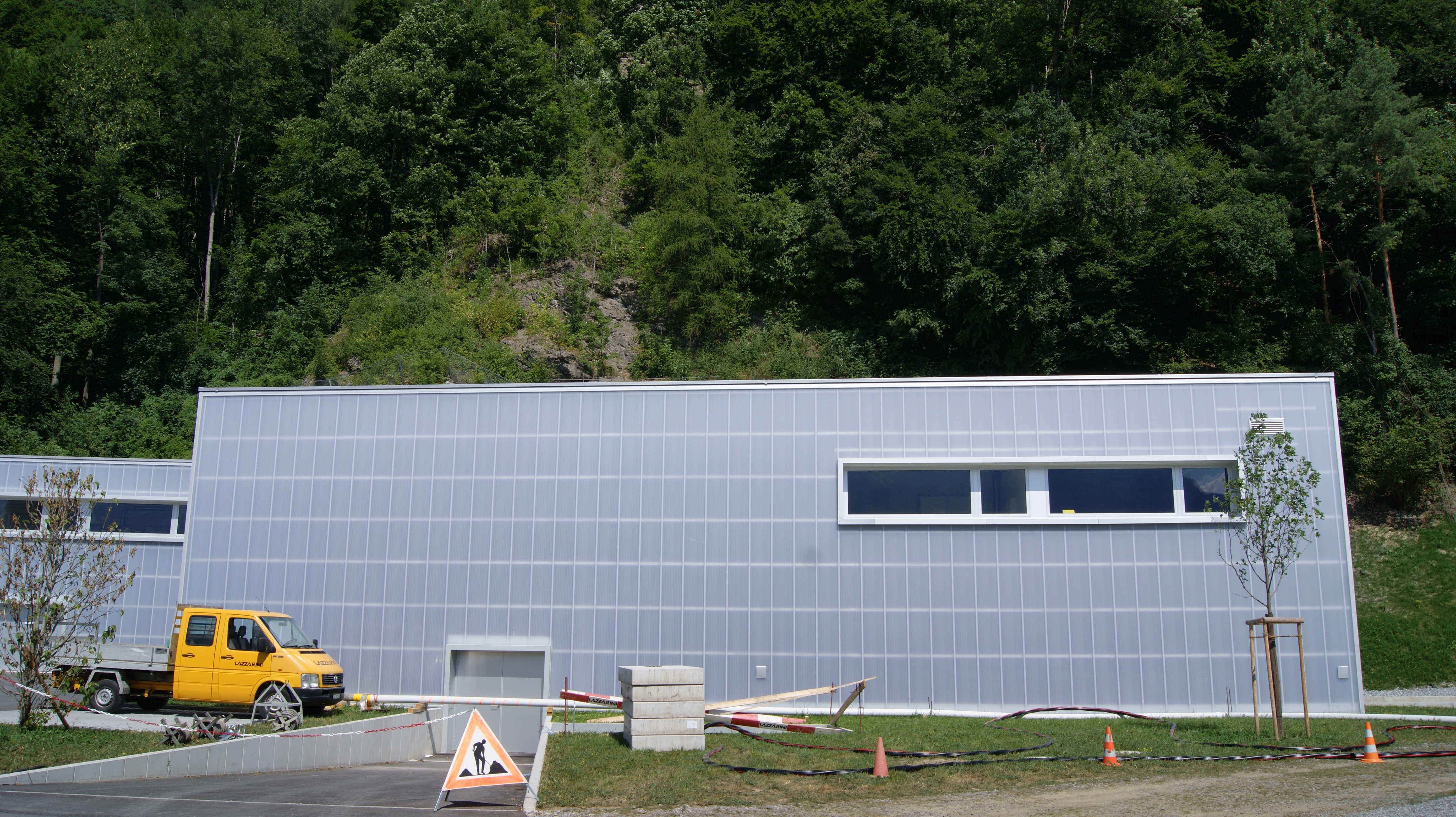 Samina power plant in Vaduz, Principality of Liechtenstein. Power house in Vaduz, Schwefelstrasse 17a.